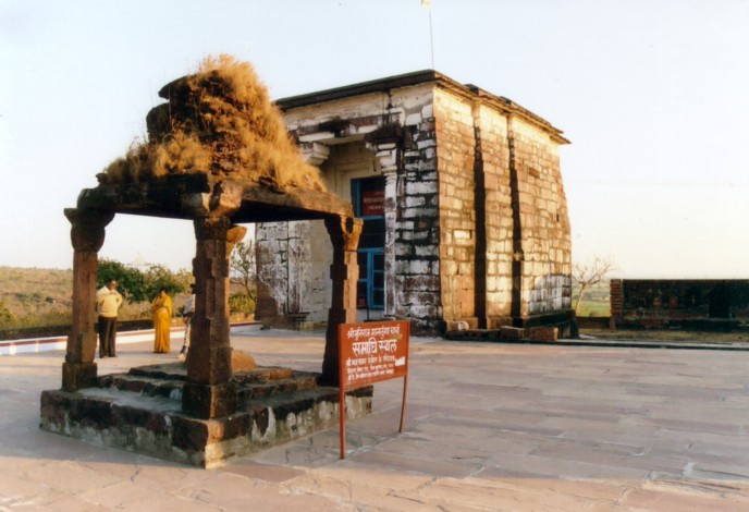 Mantunga Acharya Shrine, Picture Taken by Piyush Jain